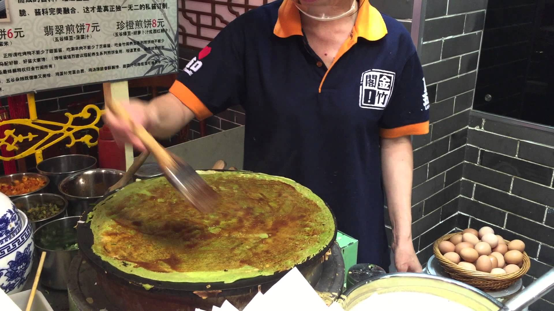 A vendor spreads flour mixture into a pan to make Jianbing